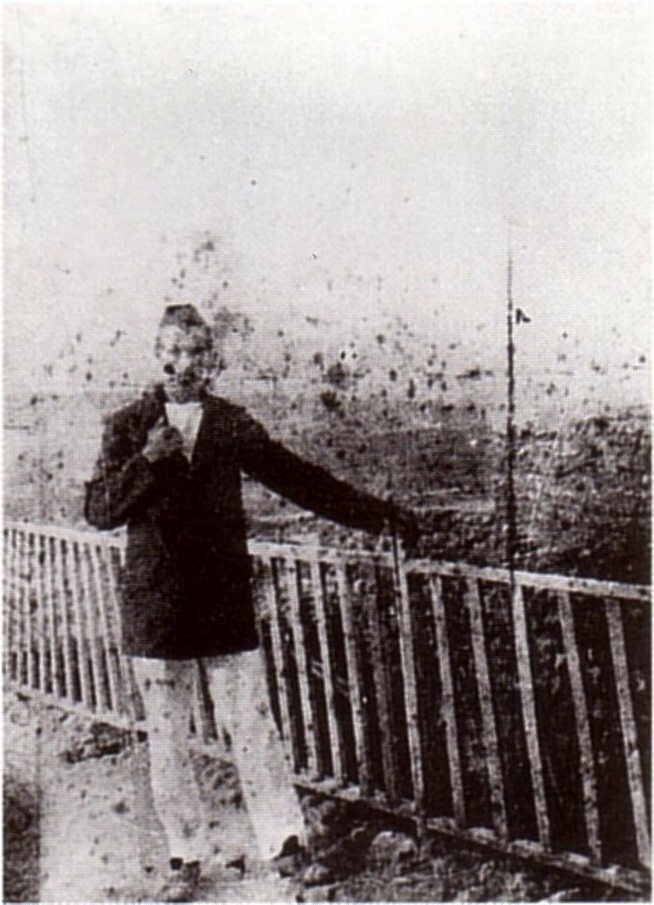 Selfportrait of Arthur Rimbaud in Harar and sent to his family in a letter posted the 6 of May 1883